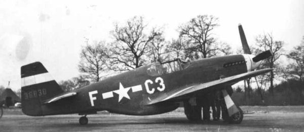 North American P-51B-5 Mustang, Serial 43-6830 of the 382d Fighter Squadron, 363d Fighter Group, at RAF Rivenhall, England.